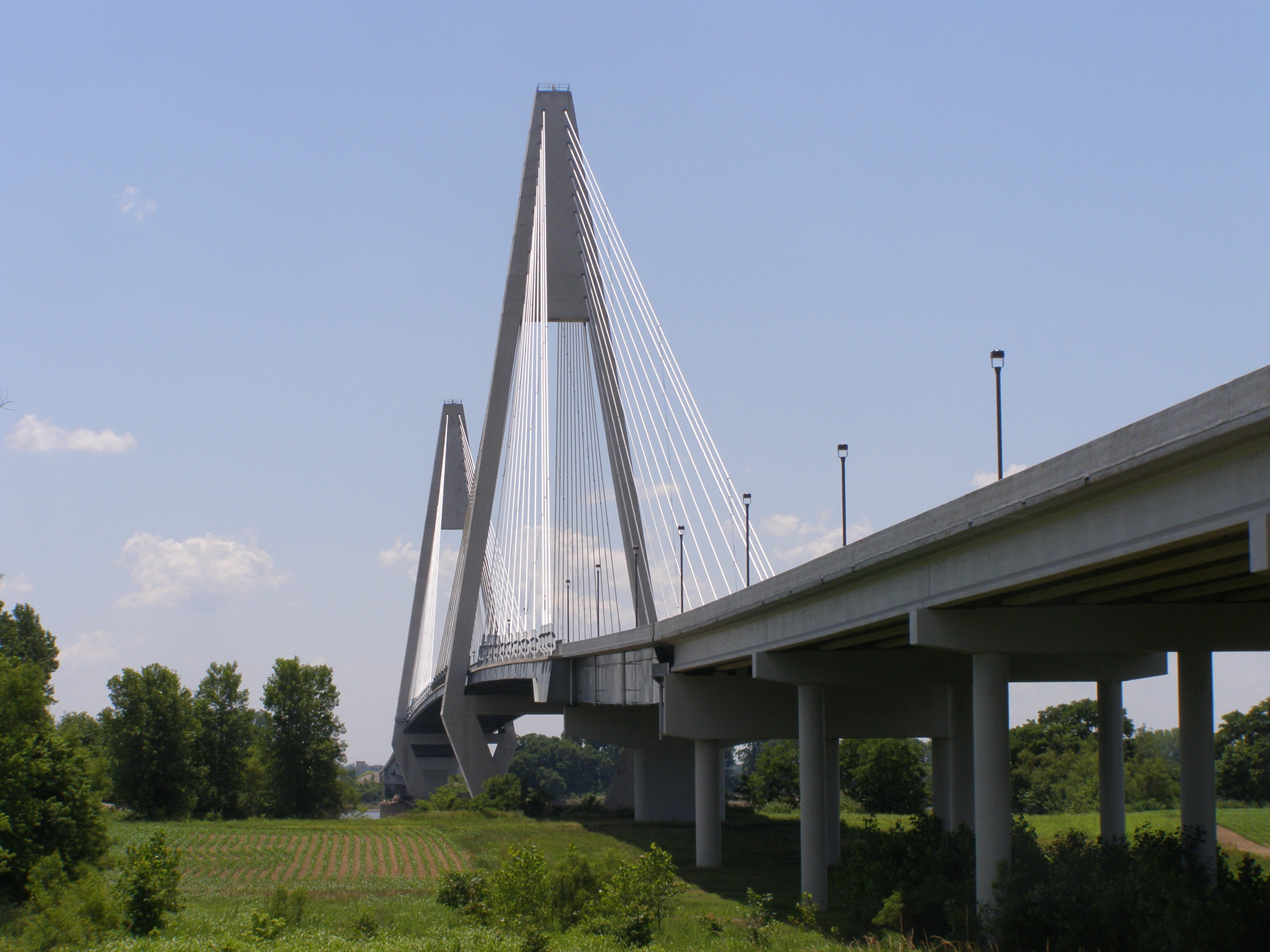 William H. Natcher Bridge view from the north, Rockport, Indiana